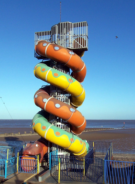 The Snake Slide Snake slide amusement on Cleethorpes beach near the station.